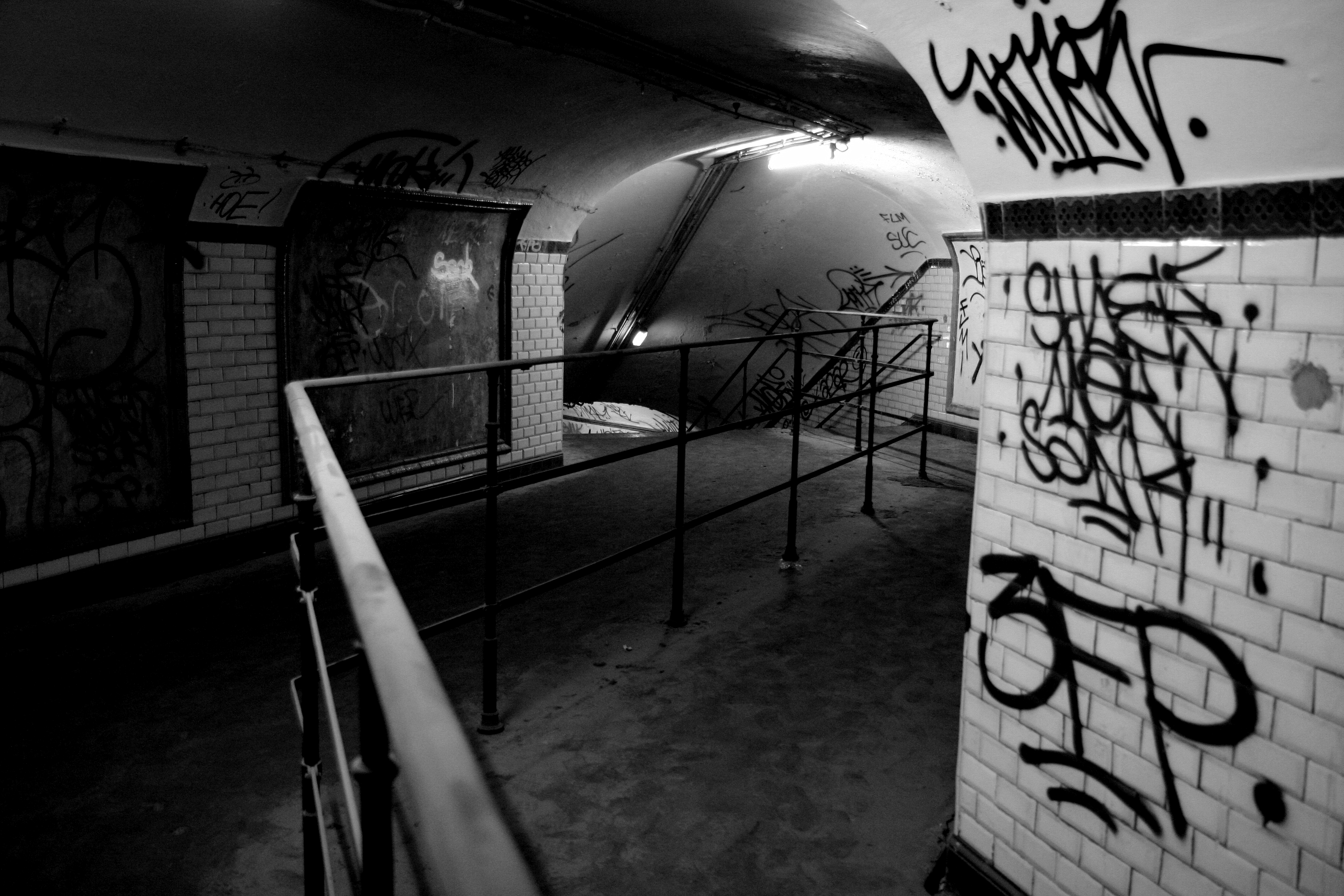 Saint-Martin, a ghost station in Paris Metro.